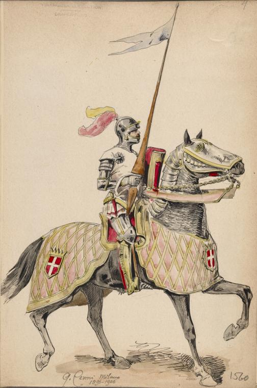 Knight of Piedmont and Savoy, 1560-1714